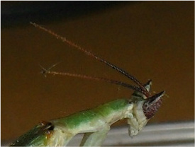 Male's head.